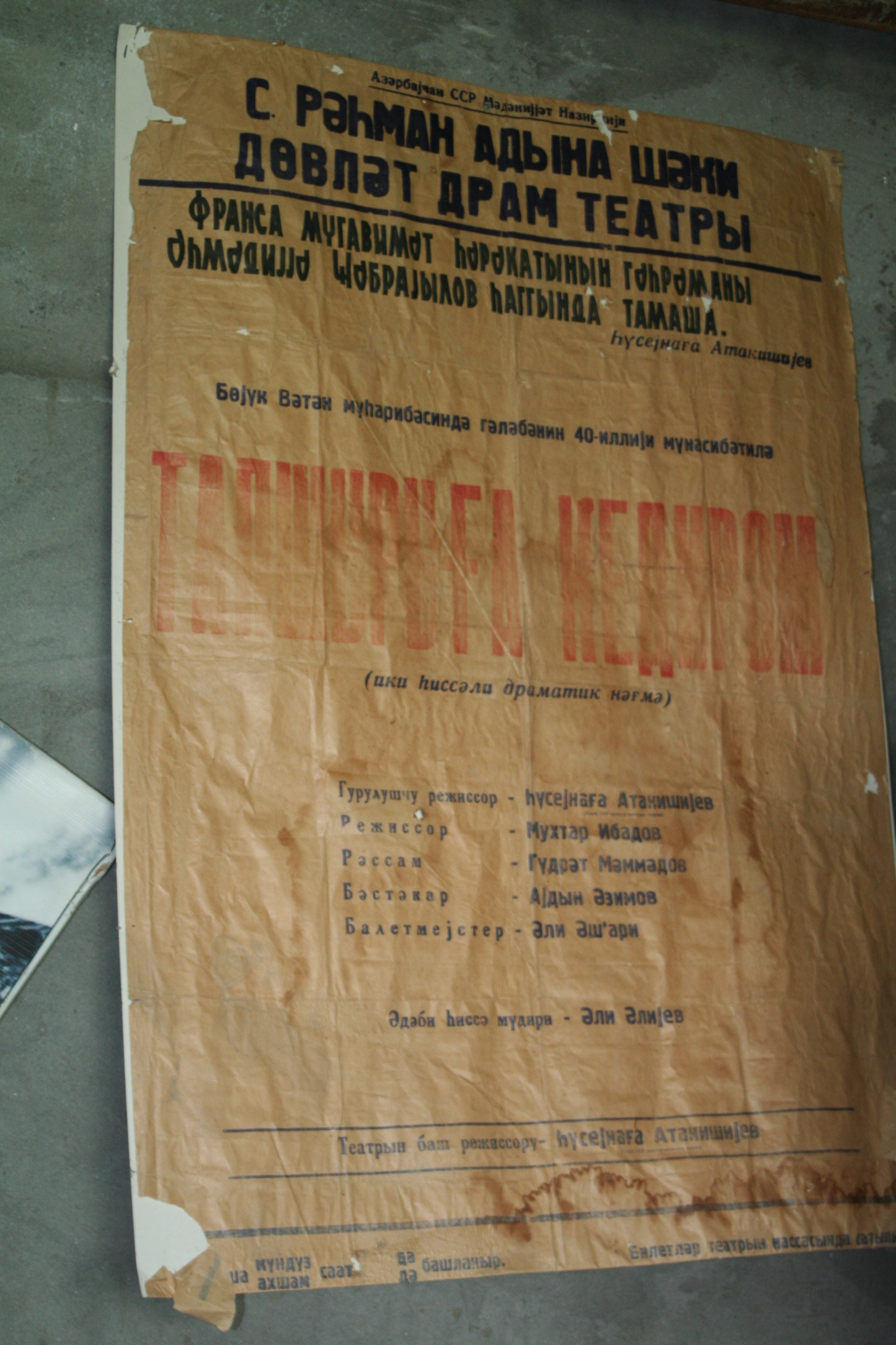 Poster of play of Huseynagha Atakishiyev "Going to task" about Ahmadiyya Jabrayilov. Shaki State Theater named after Sabit Rahman.